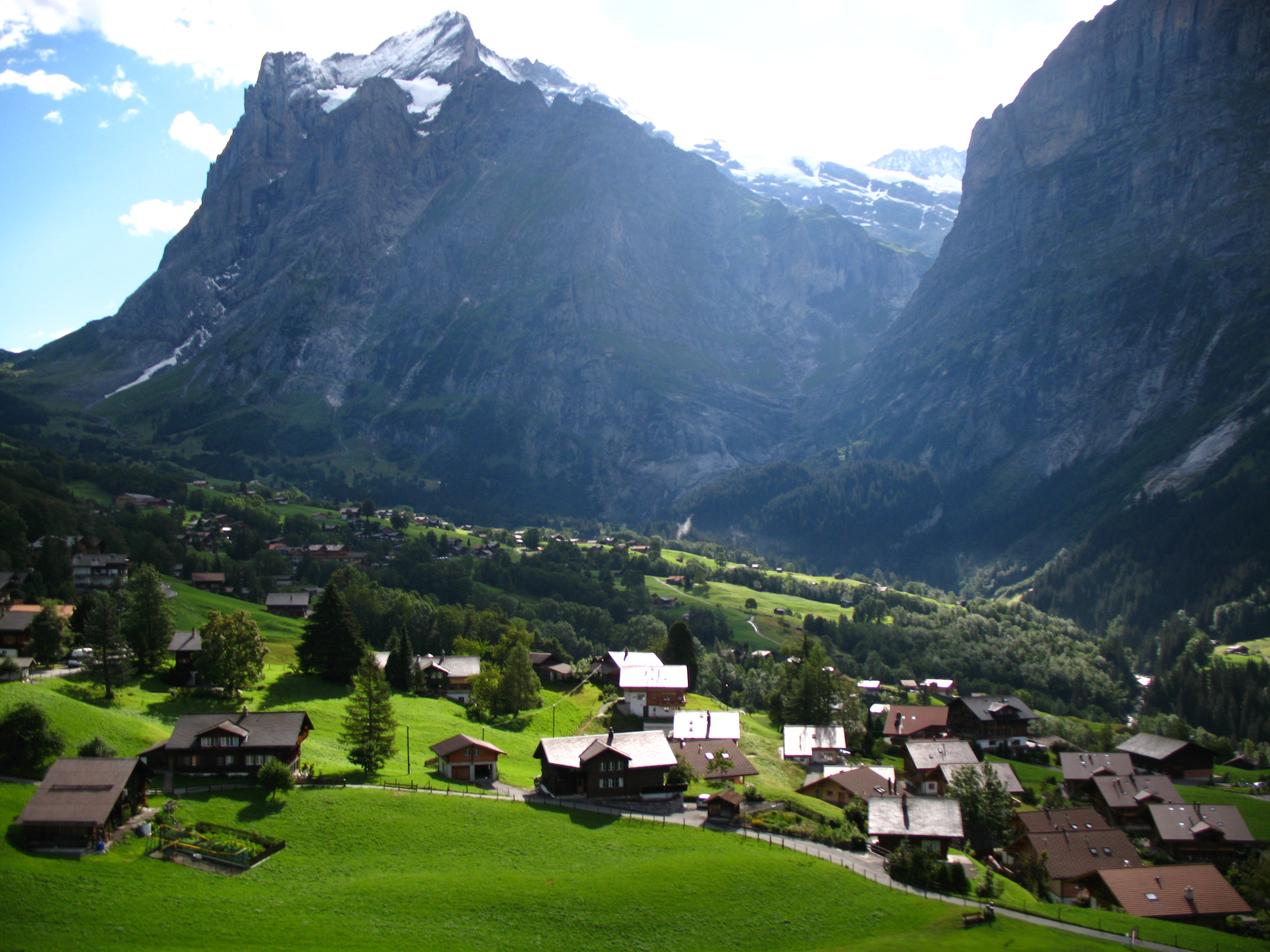 Wetterhorn viewed from the First gondola lift, Grindelwald, Switzerland